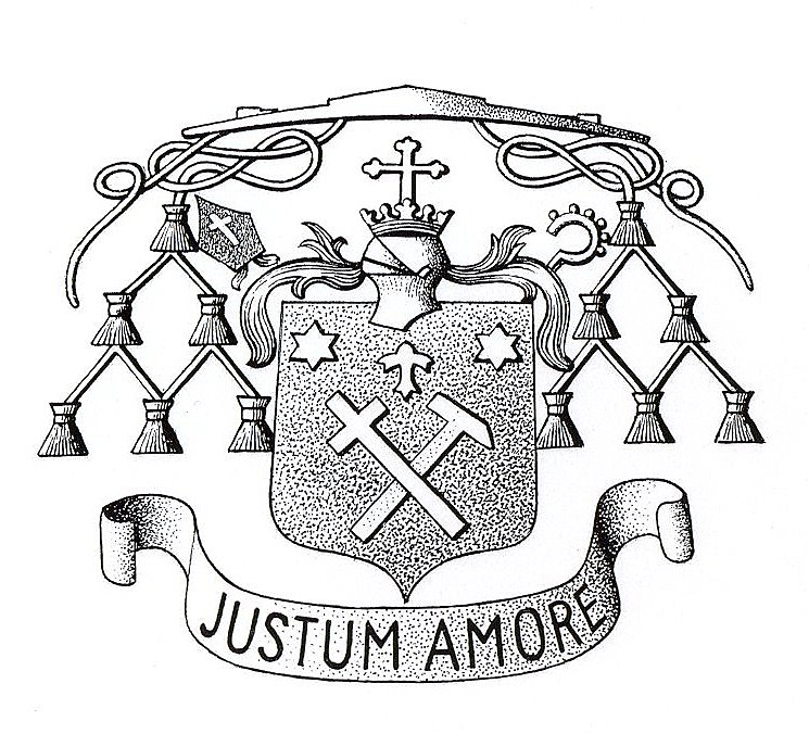 Glattfelder Gyula's coat of arms